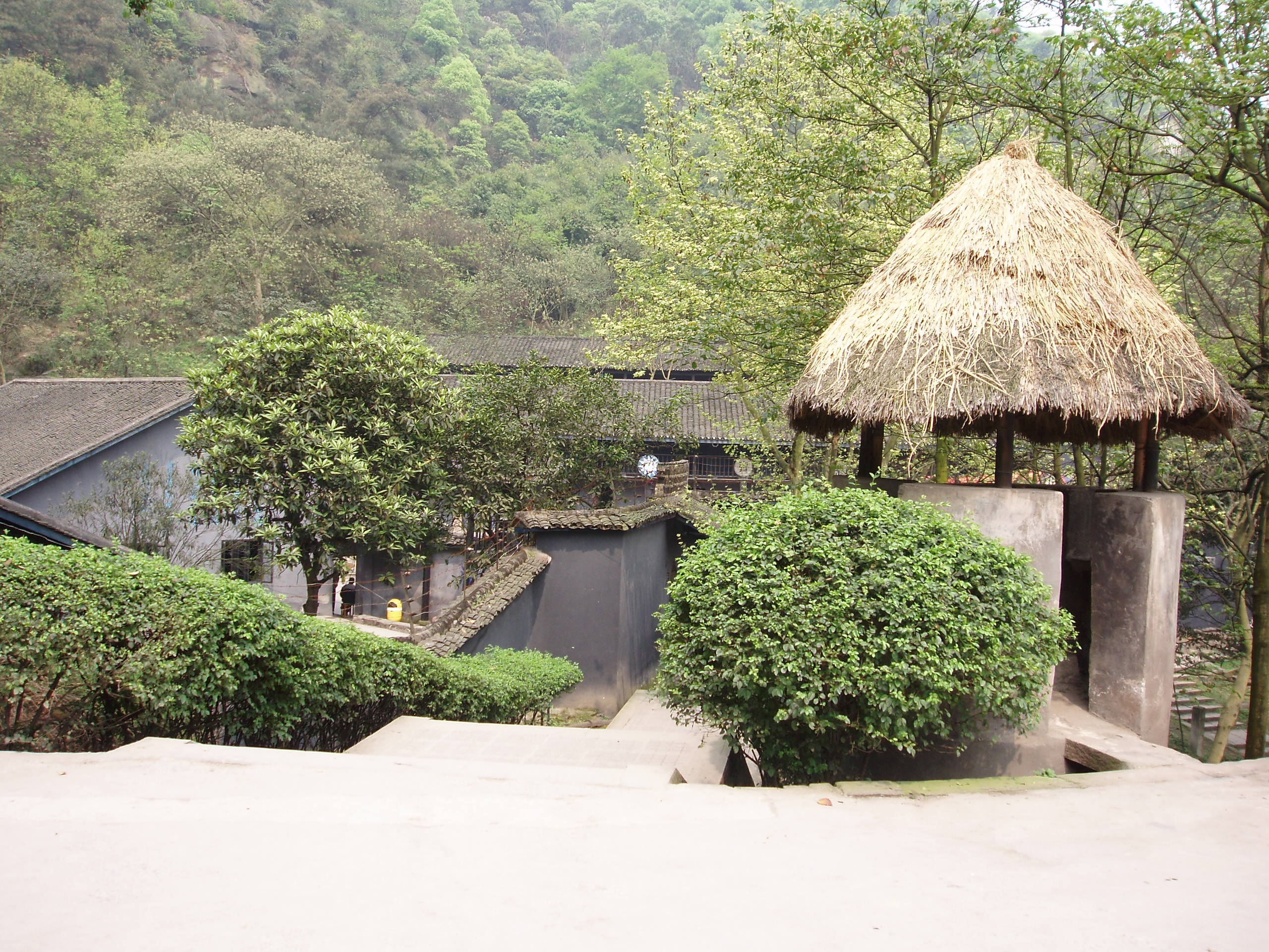 Zhazidong (渣滓洞), an ex-concentration camp for political prisoners in Chongqing, China, now is a museum.